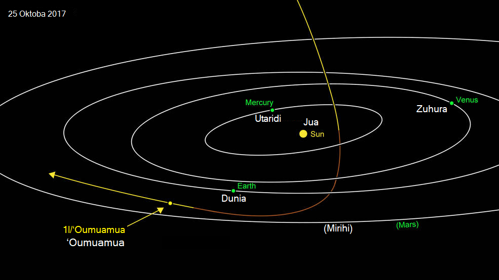 1I/ʻOumuamua orbit, Swahili labeled Kiswahili: Njia ya 1I/ʻOumuamua kupitia mfuo wa Jua